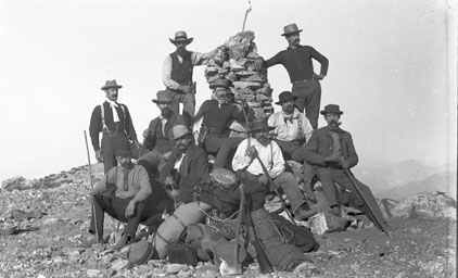 Group of hunters at the summit of Mount San Antonio—Mount Baldy, ca. 1890. In the San Gabriel Mountains, Angeles National Forest, Southern California.